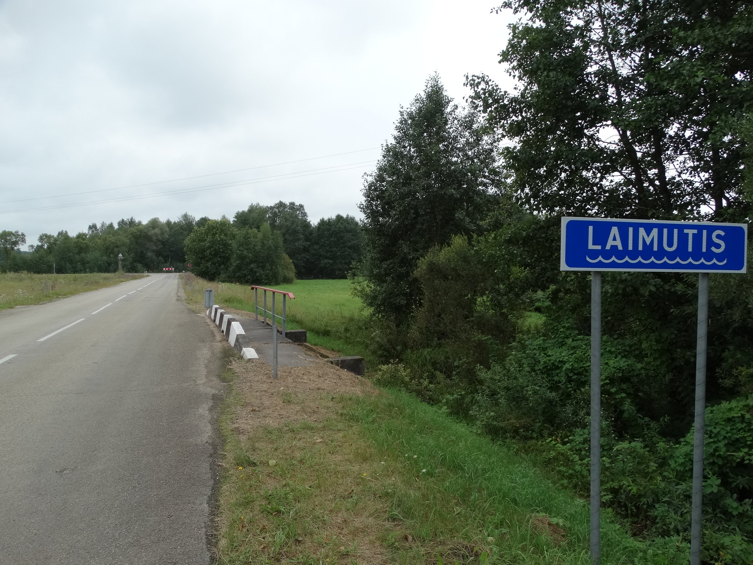 Laimutis stream, Anykščiai district, Lithuania